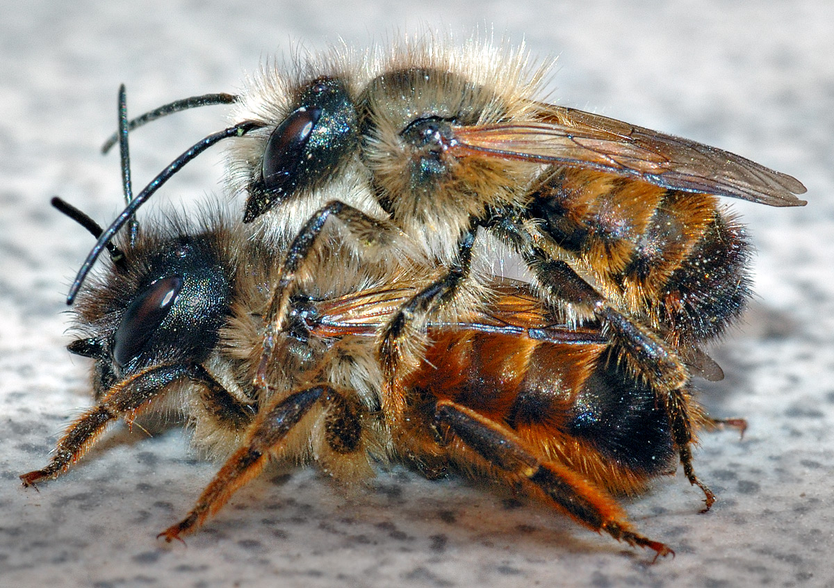 This image shows an Red Mason Bee couple (Osmia rufa).